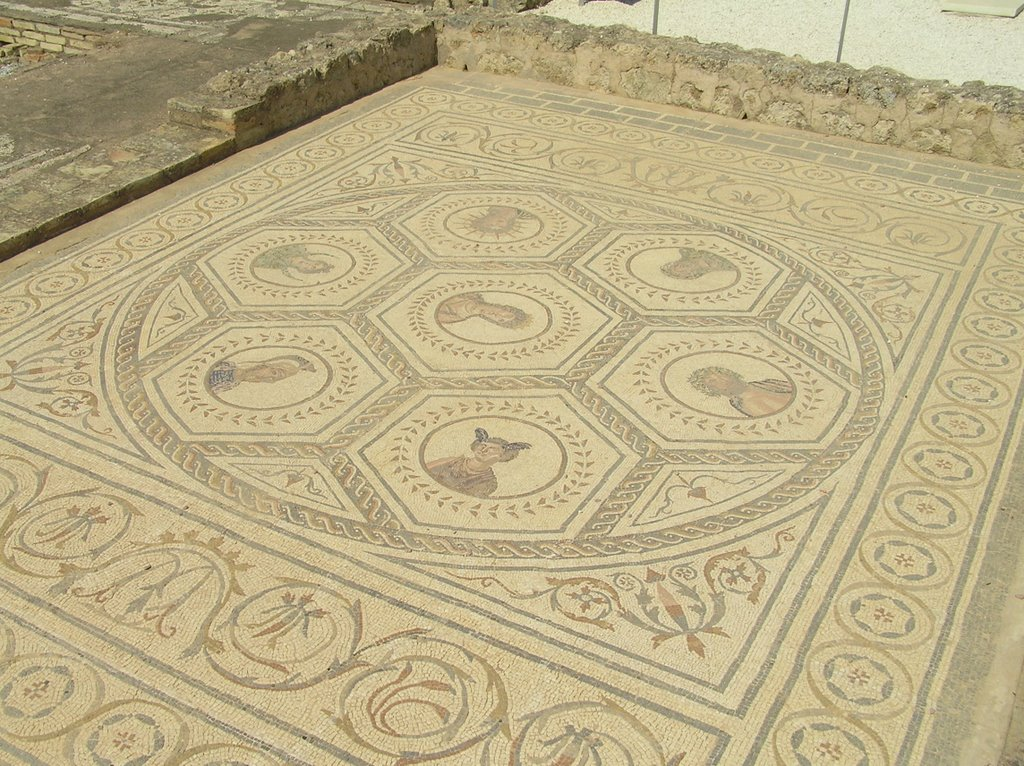 Italica House of the Planetarium in Spain. A Mosaic floor in the House of the Planetarium.